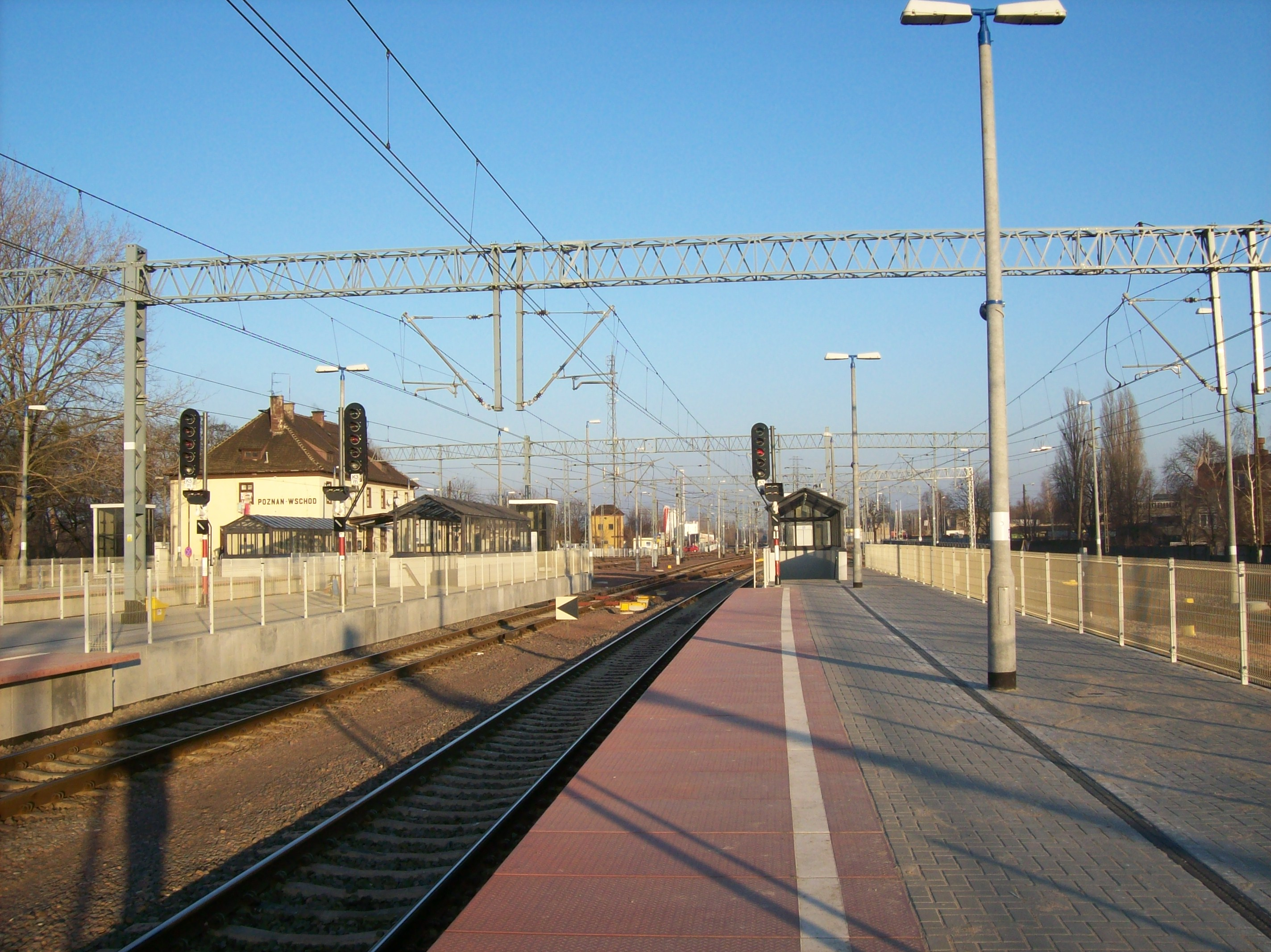 Poznań Wschód railway station.